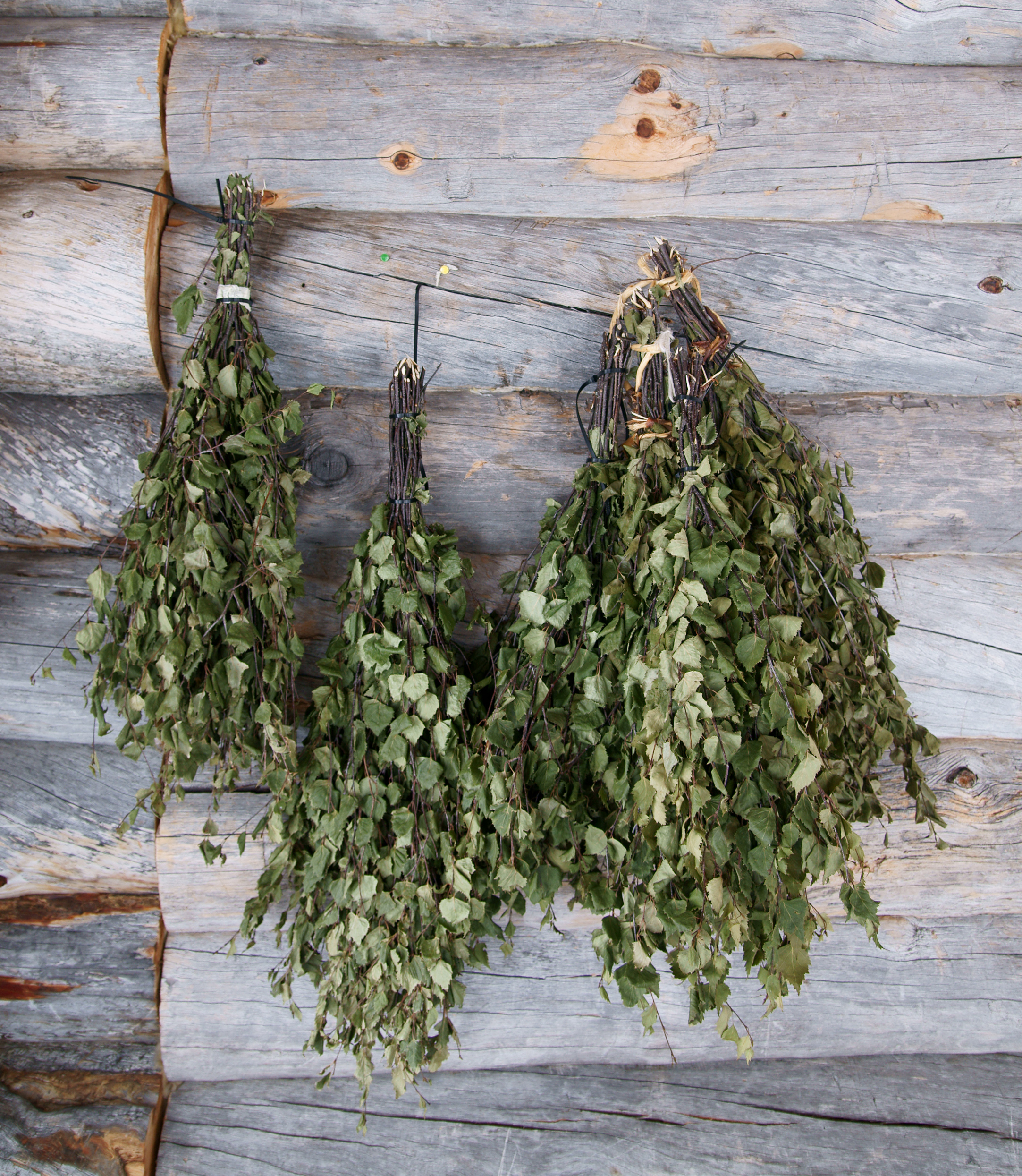 Finnish vihta (in East Finland called vasta), made of birch. It is used in traditional sauna-bathing for massage and stimulation of the skin. Two of the vihtas to the right are made in the traditional way, bound together with a rope made of a birch branch.